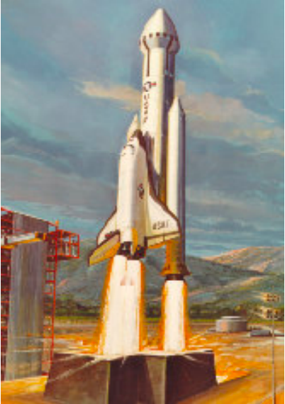 10.6 Meter Diameter Hammerhead Configuration At Launch.